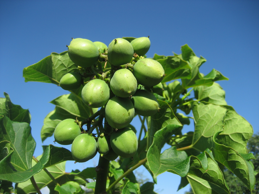 Fruit bunch on naturalized tree of Jatropha curcas or "physic nut", a promising biofuel plant. Mount Whenje, Mozambique. Seeds of this tropical tree are rich in a non-edible oil used to process biodiesel.